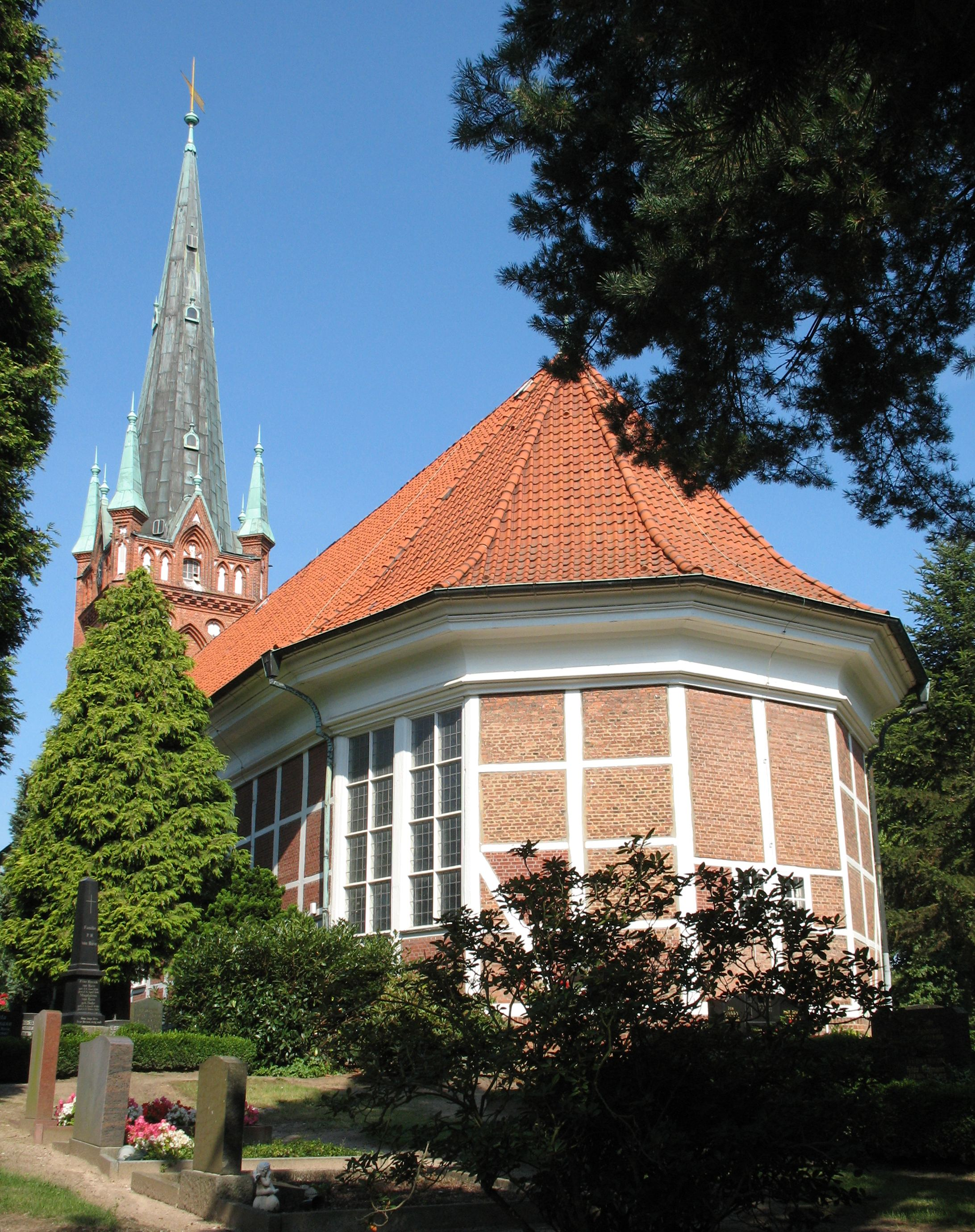 Church in Hamburg-Moorfleet, Germany This is the photograph of an architectural monument. It is part of the list of cultural monuments of Hamburg, no. 27702